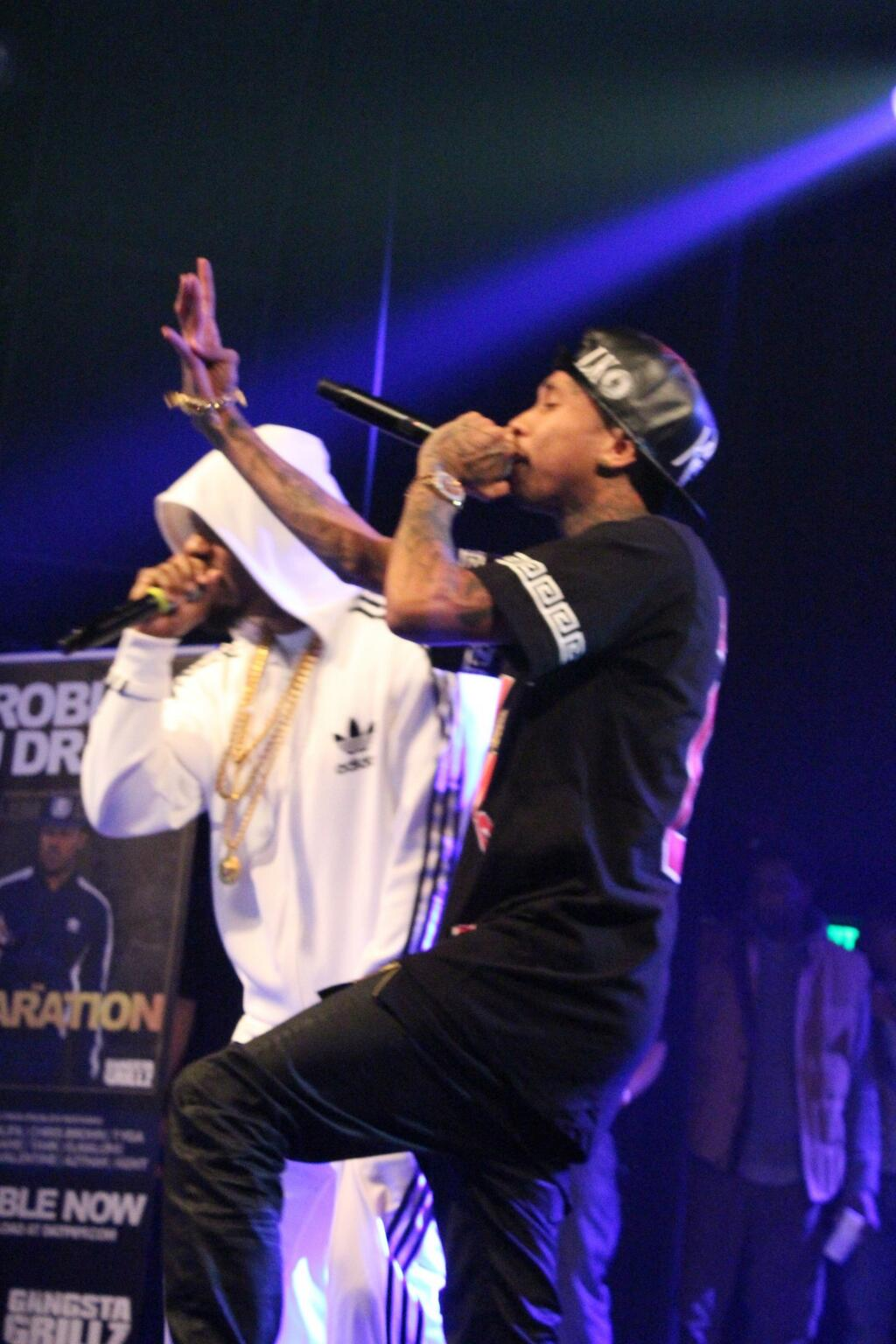 Tyga & The Game in 2013